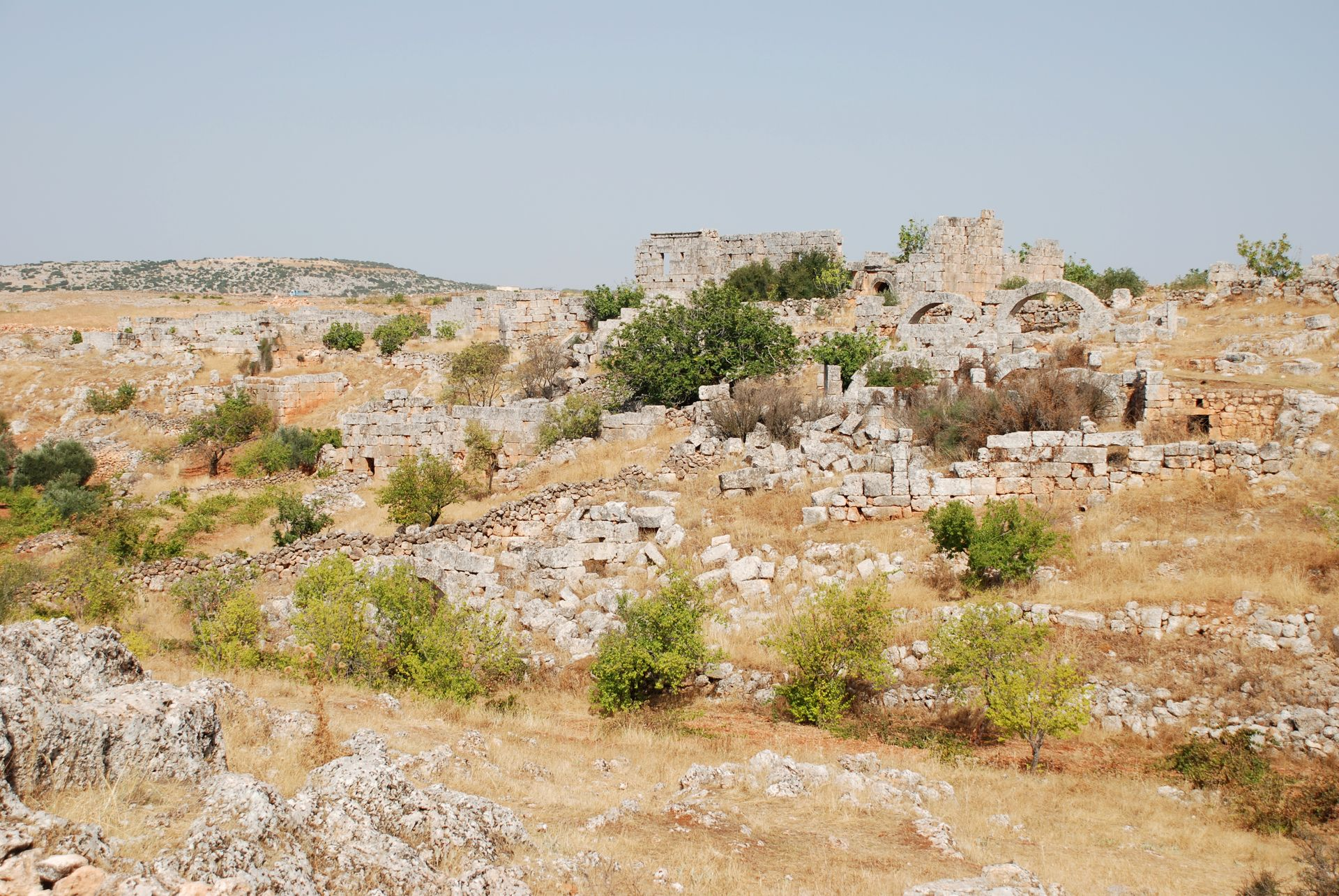 Btirsa, near Serjilla, dead city in Syria